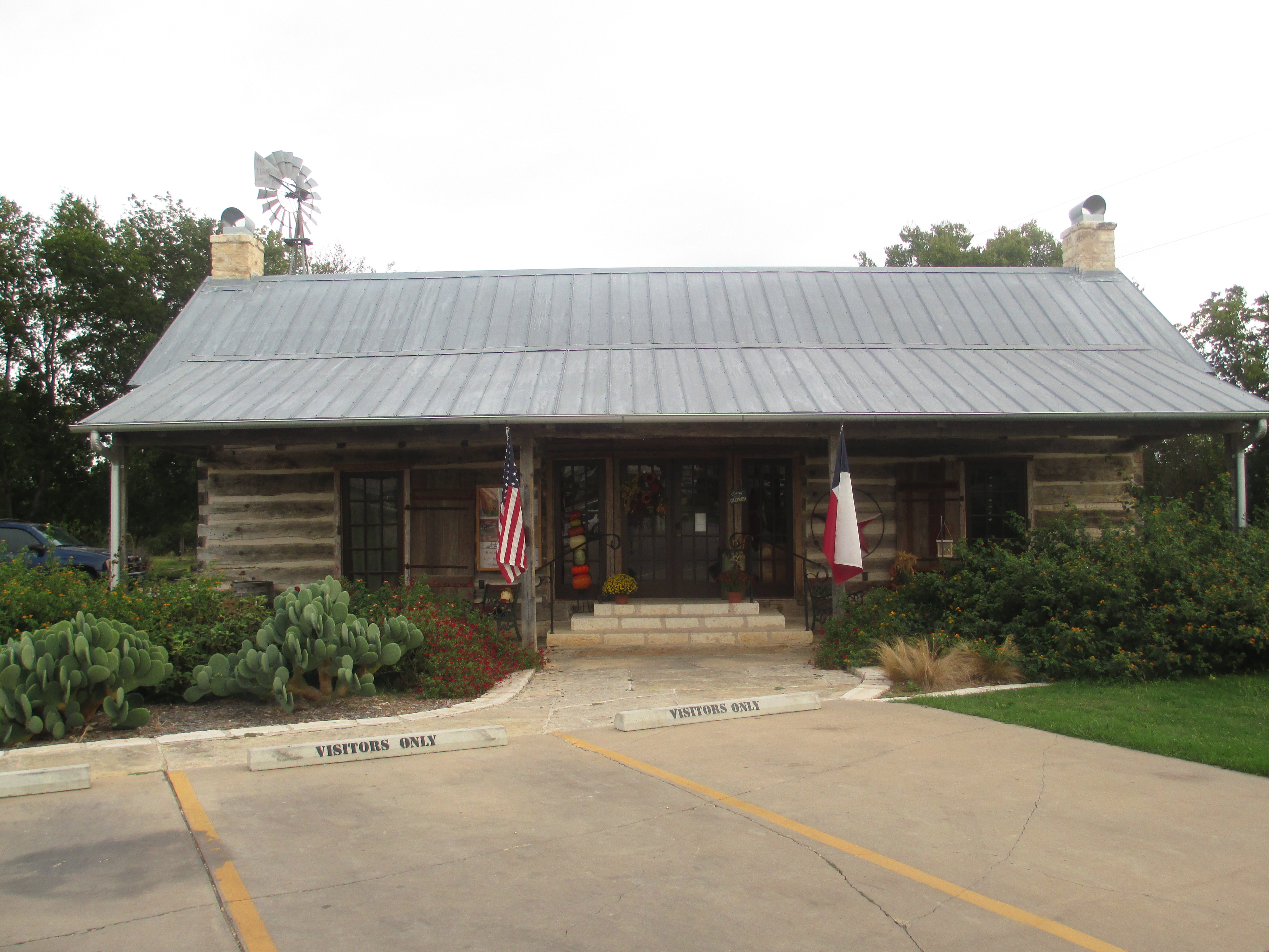 I took photo of Salado, TX, Visitor's Center with a Canon camera.